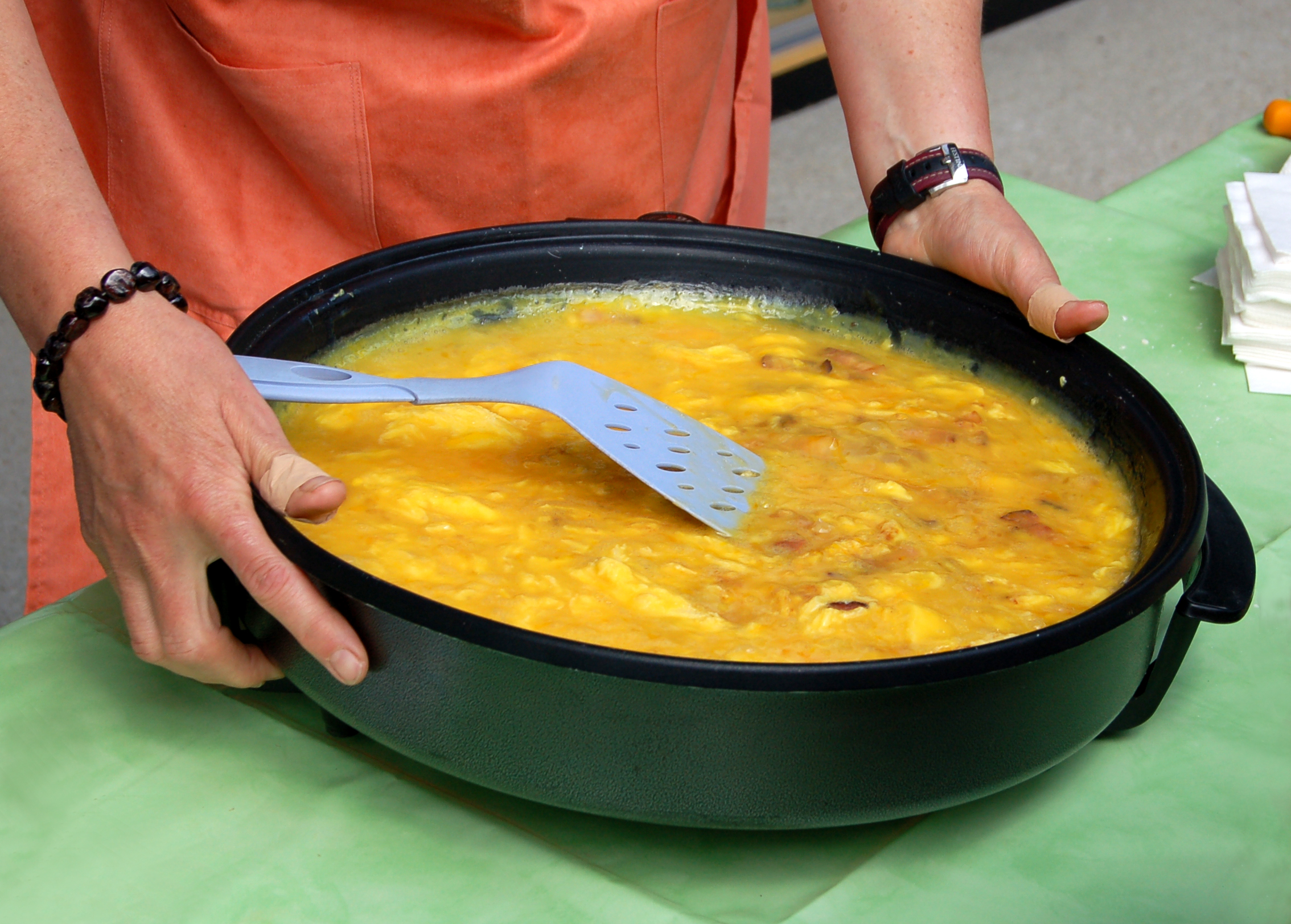 Ostrich egg scrambled. One ostrich egg equals to about 25 chicken eggs.